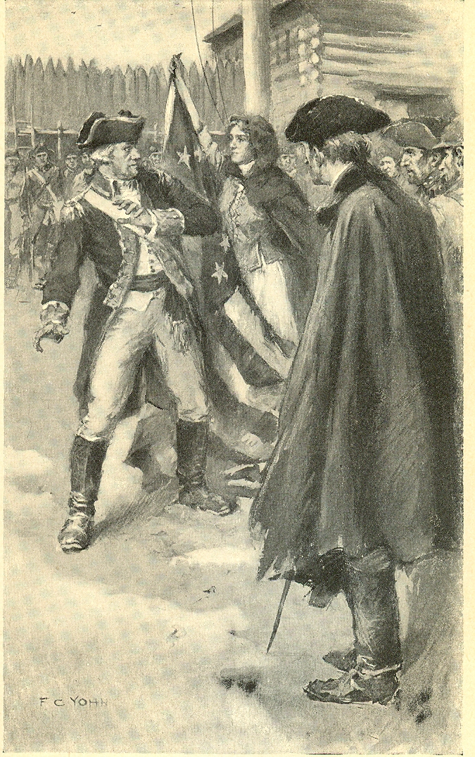 Illustration from Alice of Old Vincennes